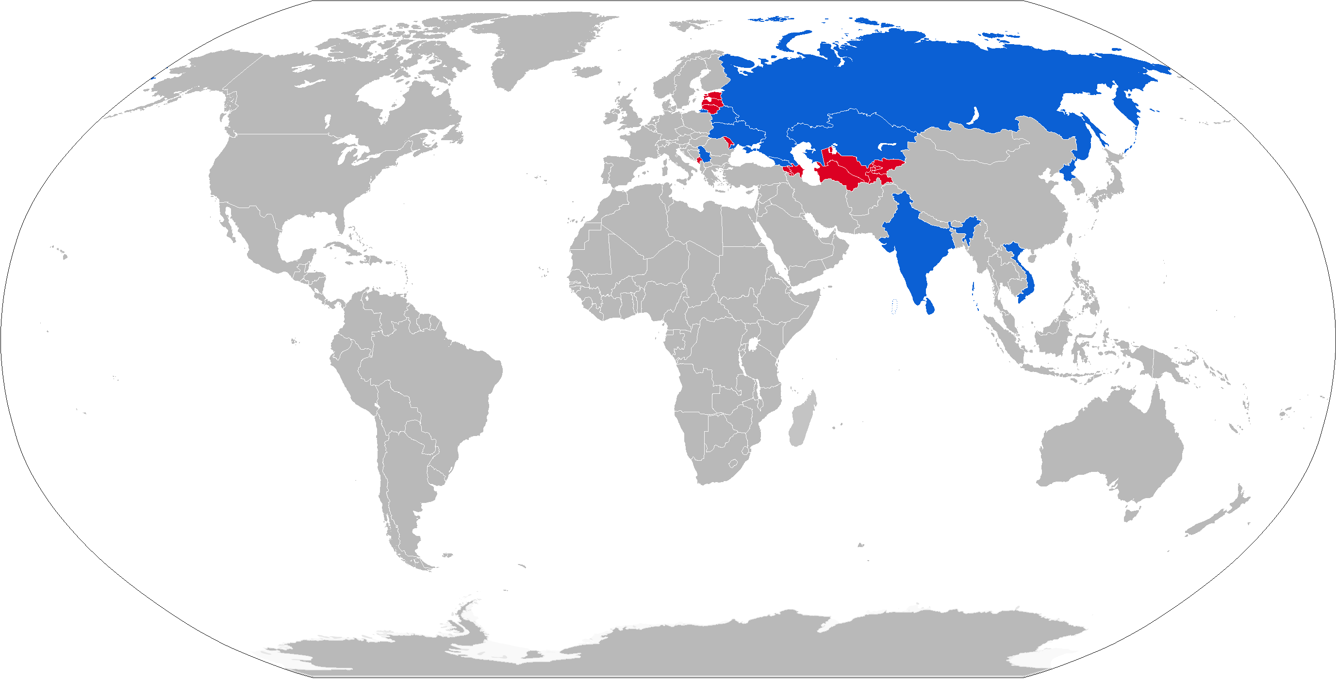 Map with RPO-A operators in blue and former operators in red